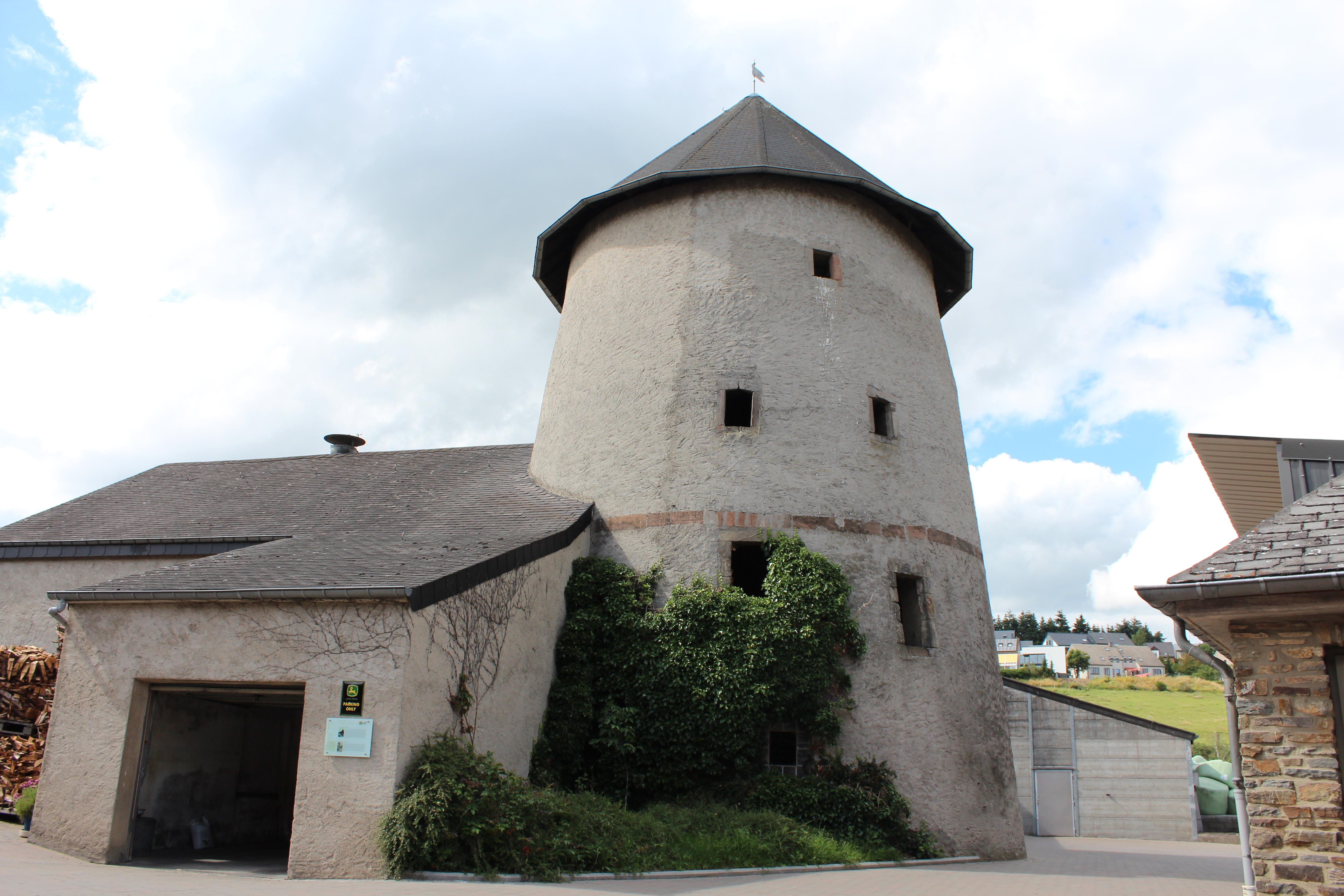 Former Windmill in Niederwiltz, Luxembourg.